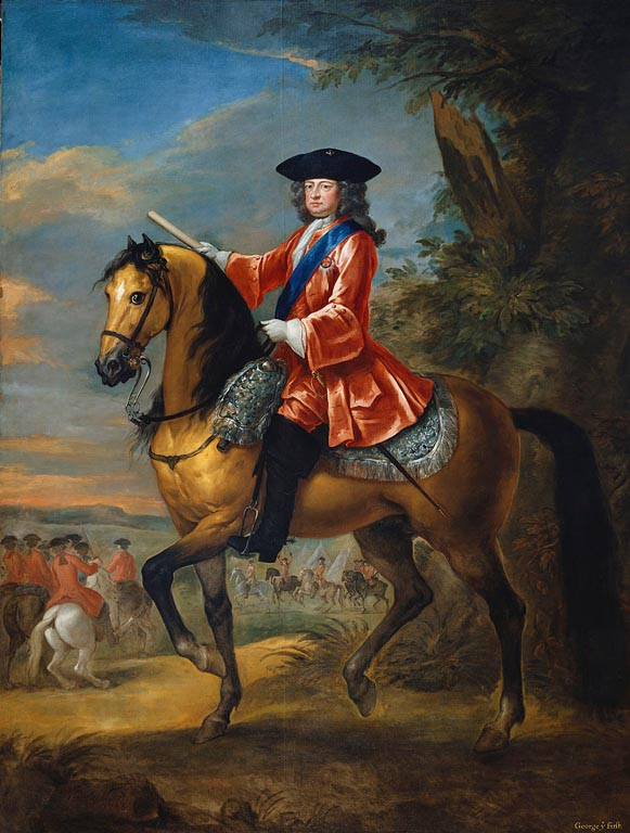 George I of Great-Britain on horseback